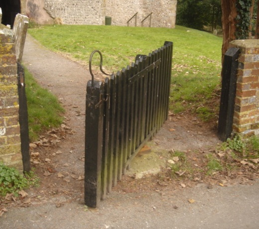 The "Tapsel gate" in the churchyard of the Church of the Transfiguration, Pyecombe, West Sussex, England. These gates are unique to Sussex, where six remain. This is a modern (early 20th-century) replacement of the original late 18th-century gate at this location.